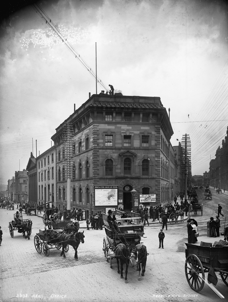 Format: Glass plate negative. Repository: Tyrrell Photographic Collection, Powerhouse Museum Part Of: Powerhouse Museum Collection General information about the Powerhouse Museum Collection is available at Persistent URL: Acquisition credit line: Gift of Australian Consolidated Press under the Taxation Incentives for the Arts Scheme, 1985